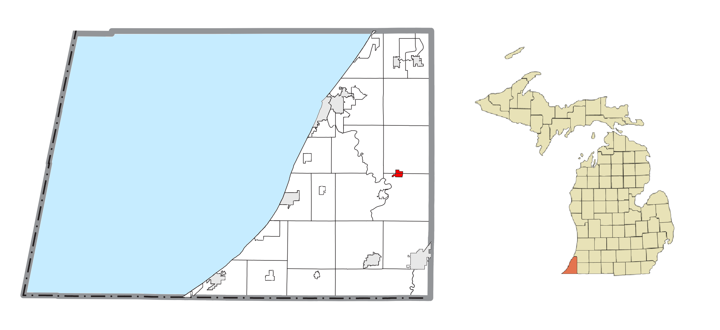 Eau Claire, MI